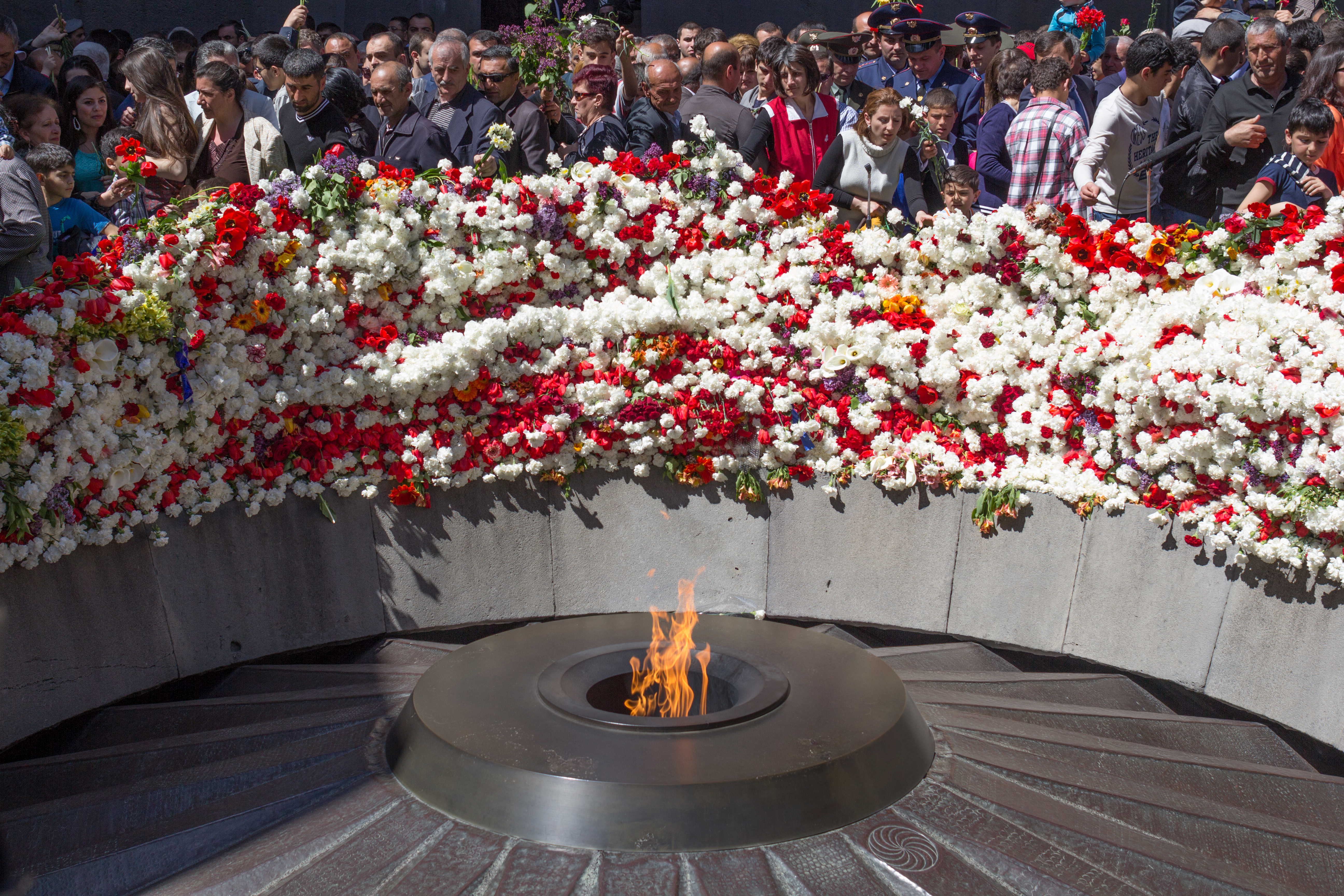 The eternal flame at the Tsitsernakaberd Memorial in Yerevan, Armenia, on Armenian Genocide Remembrance Day 2014.